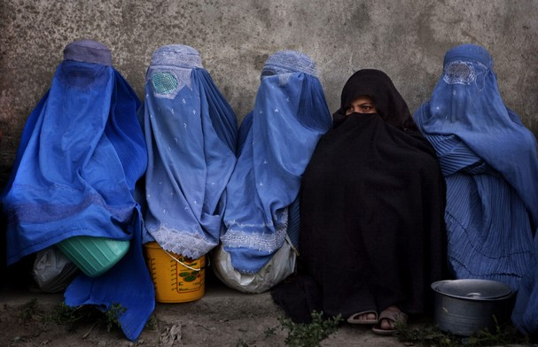 jabarkhyl